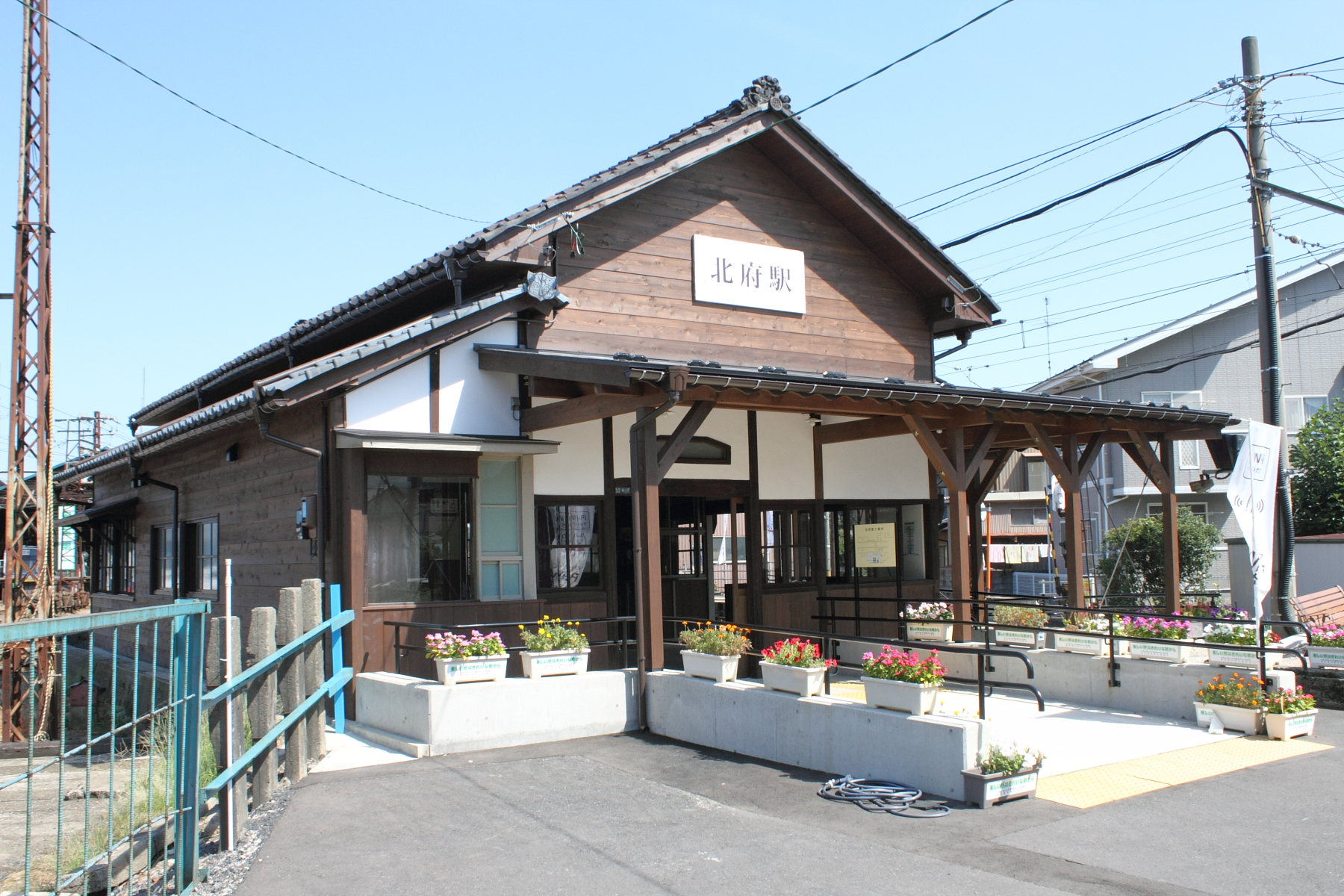 Entrance of Kitago Station.